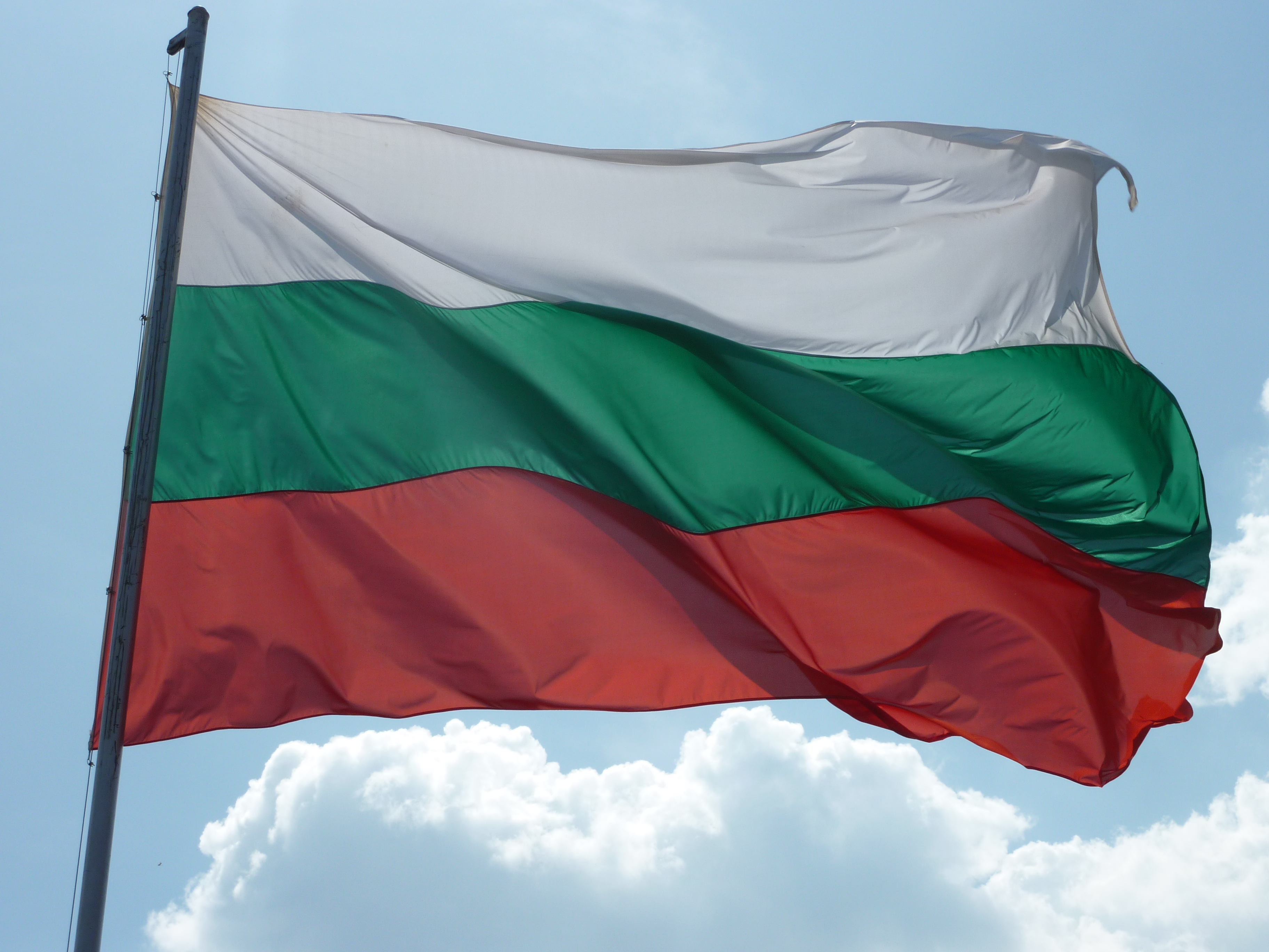 Flag of Bulgaria